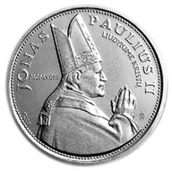 10 litas coin issued to commemorate the visit of Pope John Paul II to Lithuania Alloy of copper and nickel (Cu 75%, Ni 25%) Diameter 28.70 mm Weight 13.15 g The words on the edge of the coin: TIKEJIMAS* MEILE* VILTIS* (FAITH. LOVE. HOPE) The designer of the coin are Leonas Pivoriunas and Petras Garska Mintage 10,000 pcs Issued 1993 Distribution terminated 1998 Distributed 5,000 pcs The coin was minted at the state enterprise Lithuanian Mint.